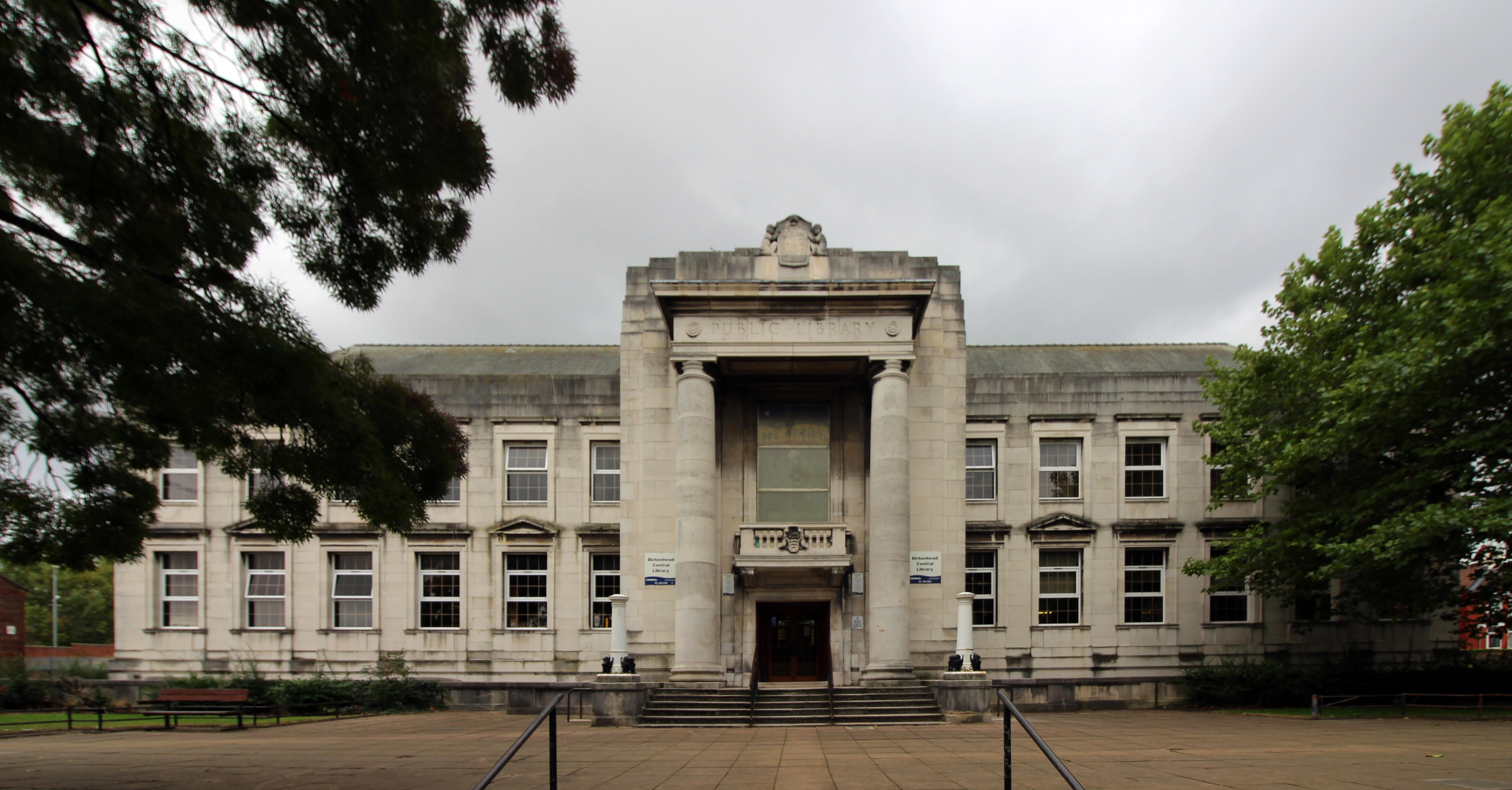 Composite view of the front elevation